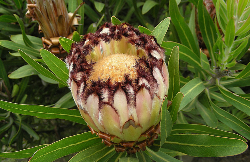 Native to South Africa, but widely enjoyed in tropical gardens. Photo from Bogota, Colombia. In context at